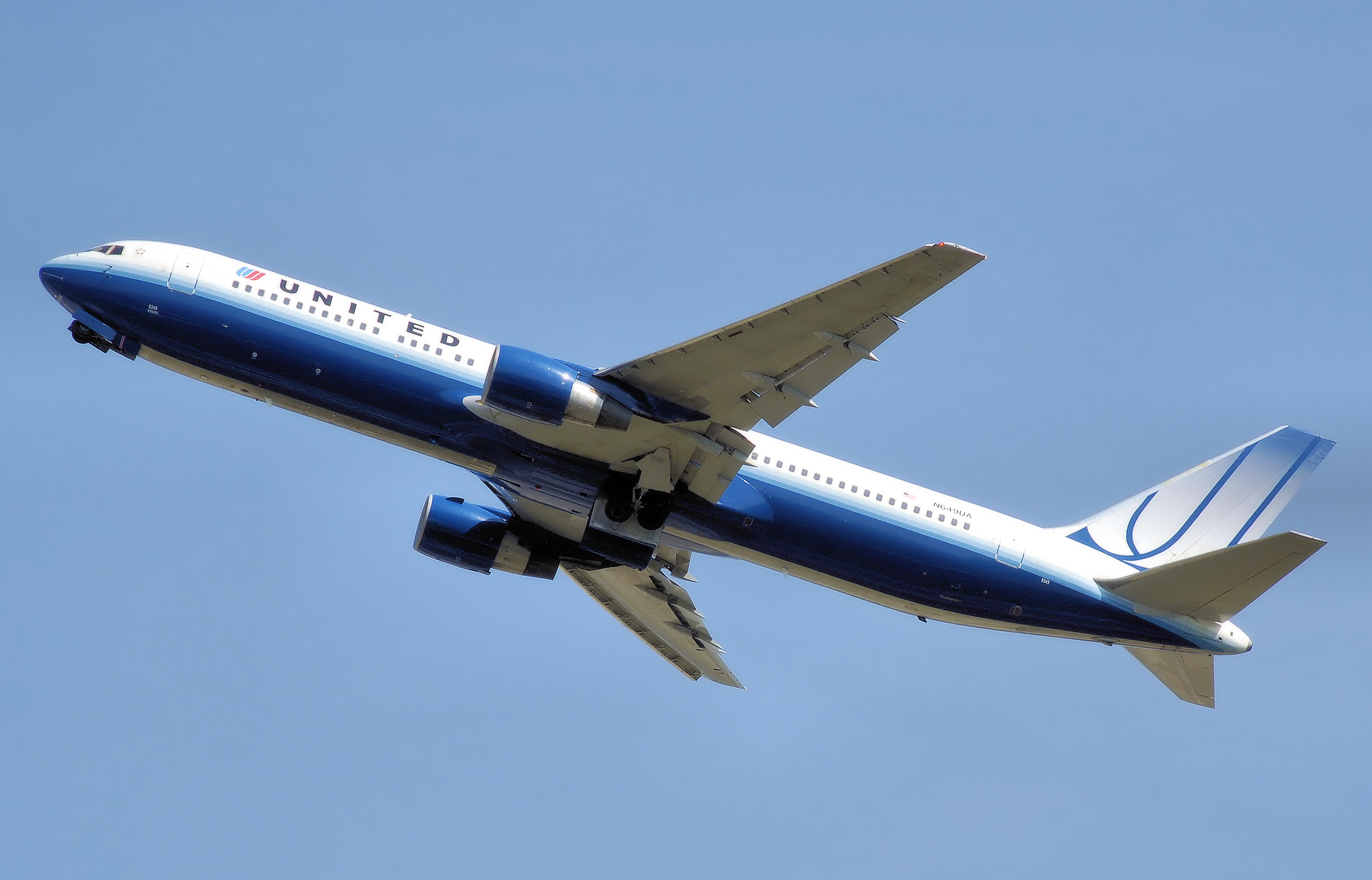 United Airlines Boeing 767-300ER (N649UA) taking off from London Heathrow Airport.